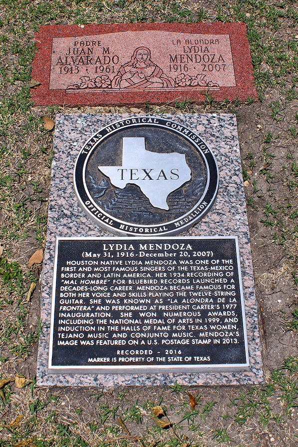 Lydia Mendoza grave headstone and historical marker at San Fernando Cemetery #2, block 1B, San Antonio, Texas, United States.